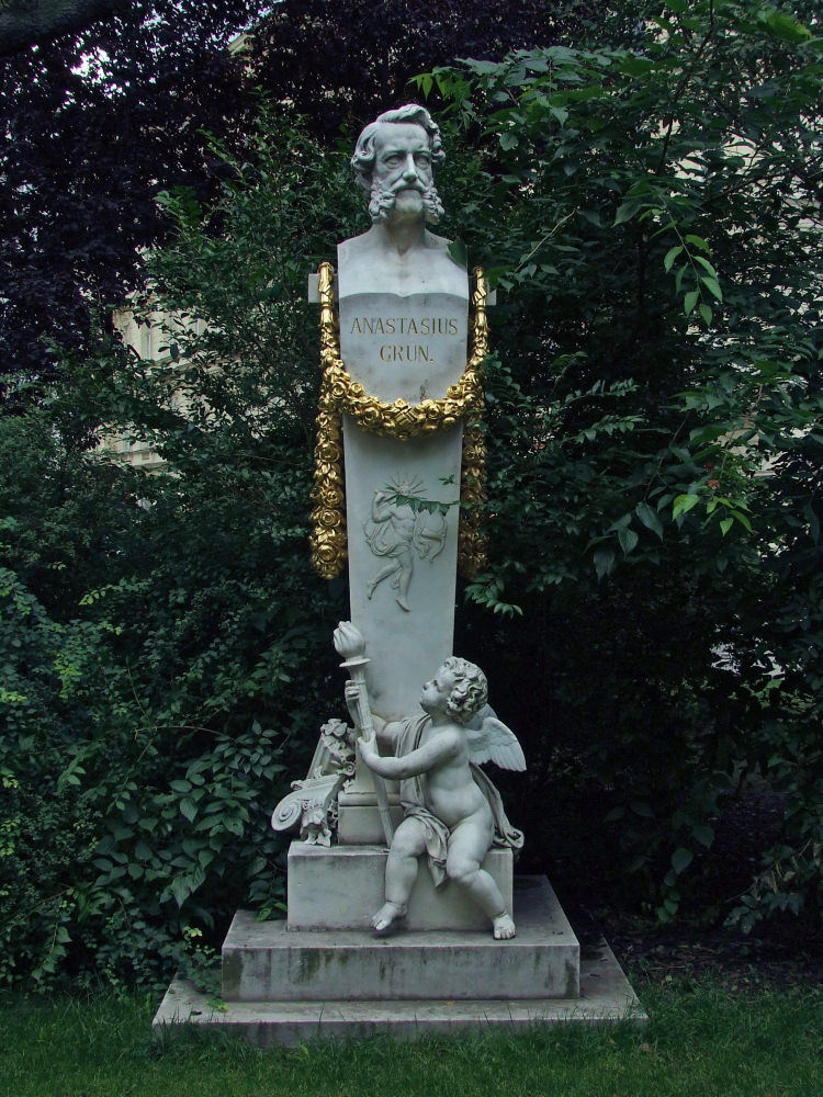 statue of Anastasius Grün (Alexander von Auersperg) at the Schillerplatz in Vienna